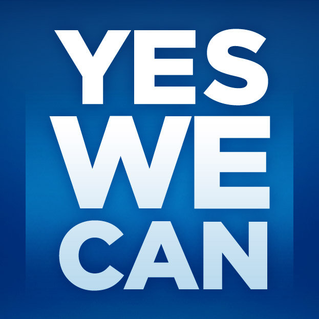 Yes We Can